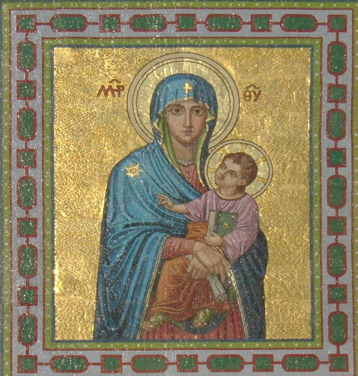 The Mosaic of Our Lady of the Snow by Viktor Foerster (1867–1915)